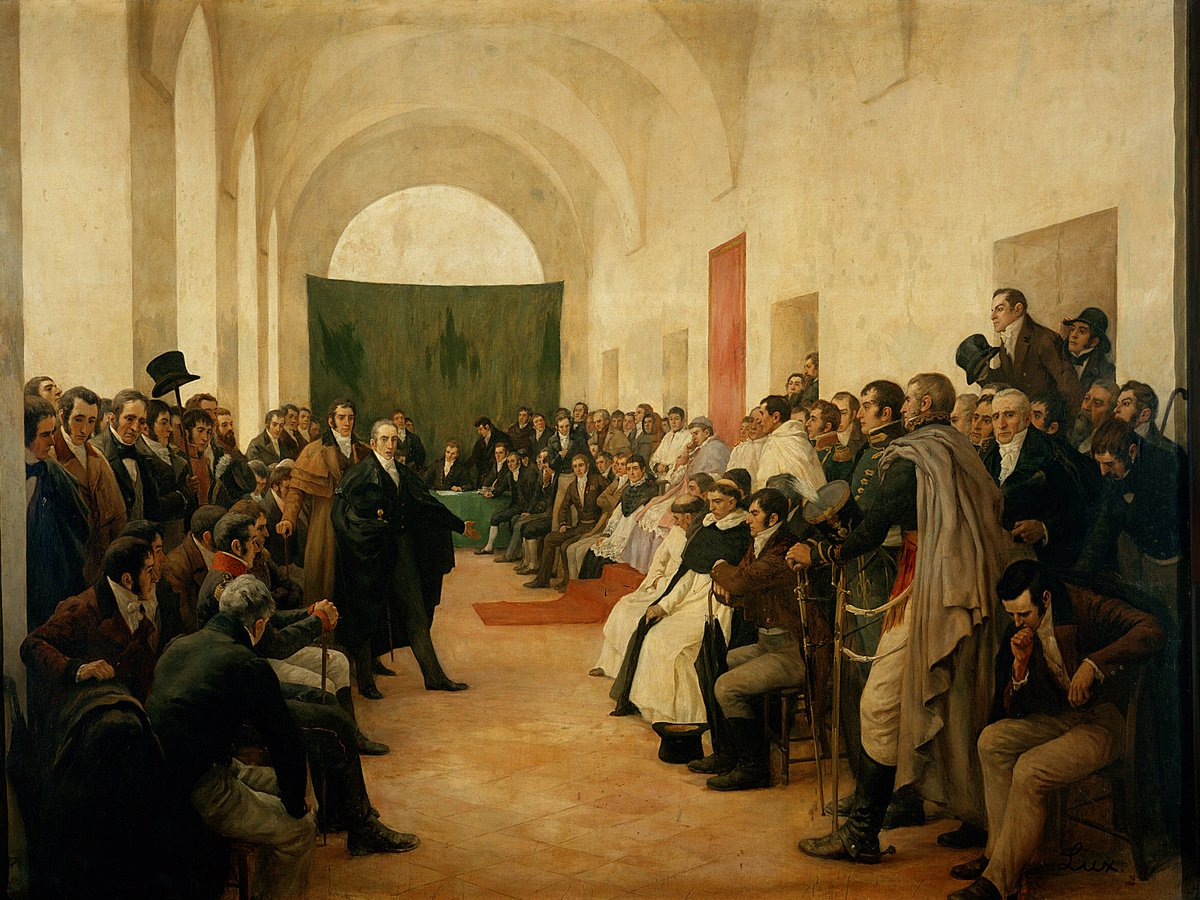 The "Cabildo Abierto" of may 22, 1810, in the city of Buenos Aires (now part of Argentina, then part of the Viceroyalty of the Río de la Plata), where it was decided to remove the viceroy Baltasar Hidalgo de Cisneros. Cleaned up blown relflective light from parts of image at request on request improvements pages. Took out levels and cuves a number of times to remove glare, then hand painted detail back in with fine digital brushes.